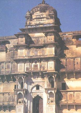 Pravin Rai Mahal